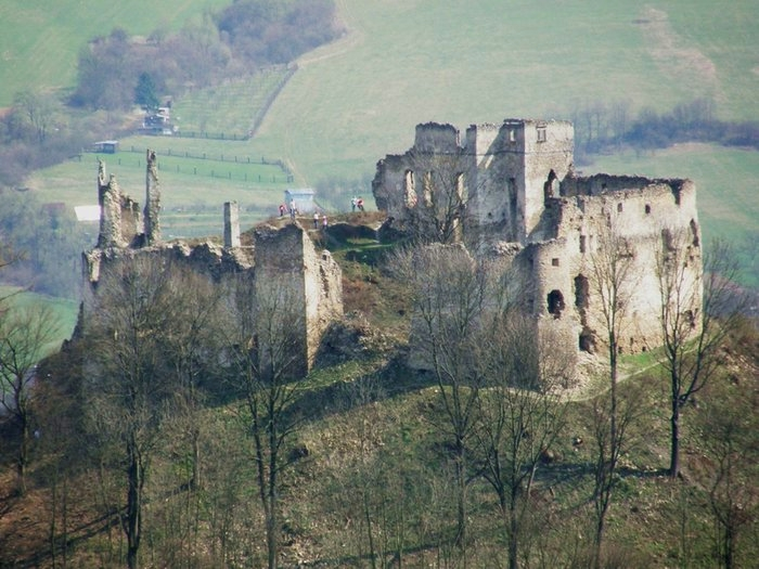 castle in Povazska Bystrica